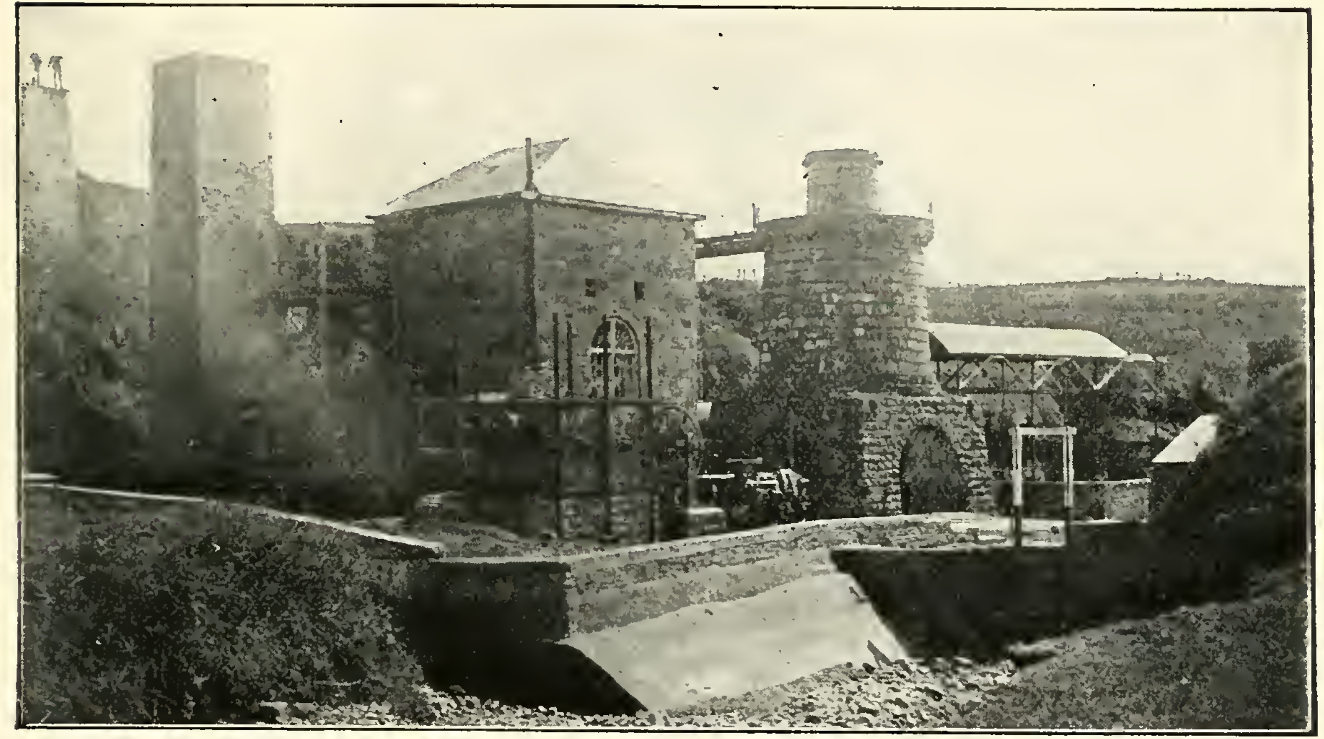 Creevelea Ironworks, 1905. Last place in Ireland where Iron has been manufactured.